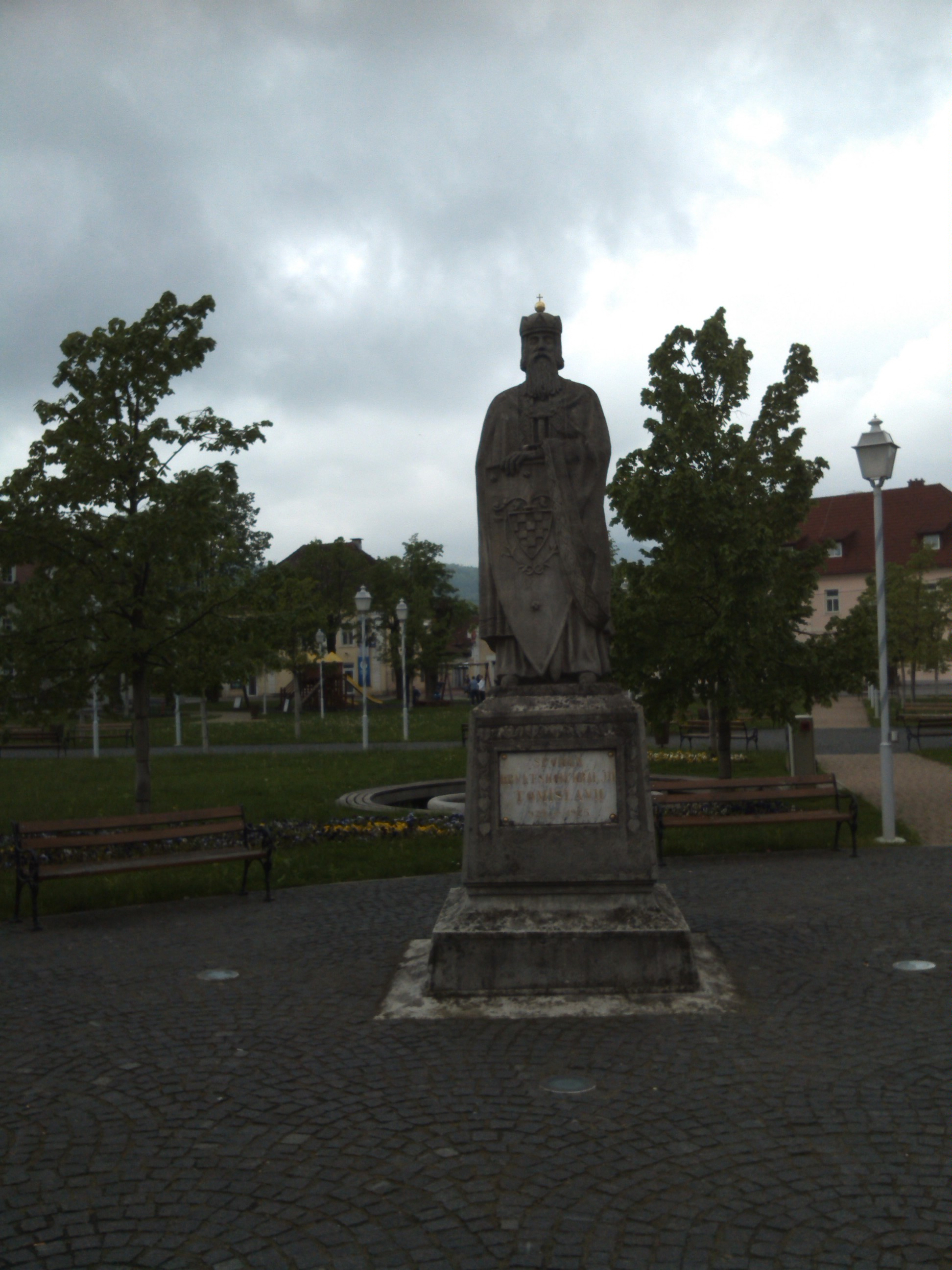 Statue of king Tomislav in Ogulin